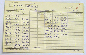 Original Caption: This card from the USS Triton has information about depth, temperature, salinity and time. Courtesy of Sydney Levitus, the director of NOAA's Ocean Climate Laboratory in Silver Spring, Maryland.